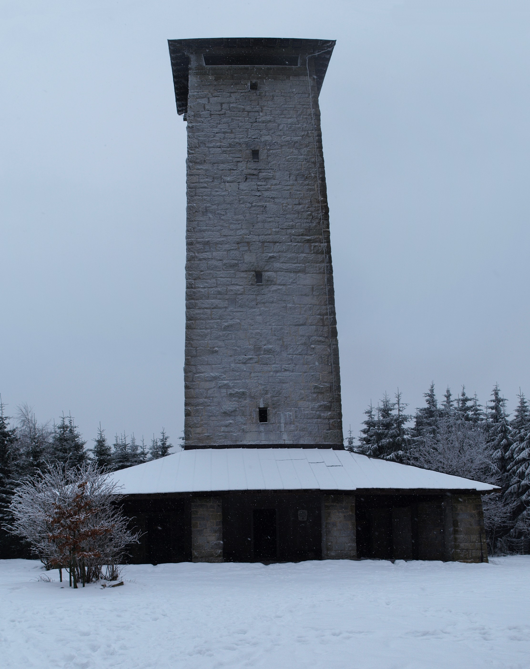 The Schönburg watchtower on the Großer Kornberg mountain in the Fichtelgebirge, Upper Franconia, Bavaria, Germany